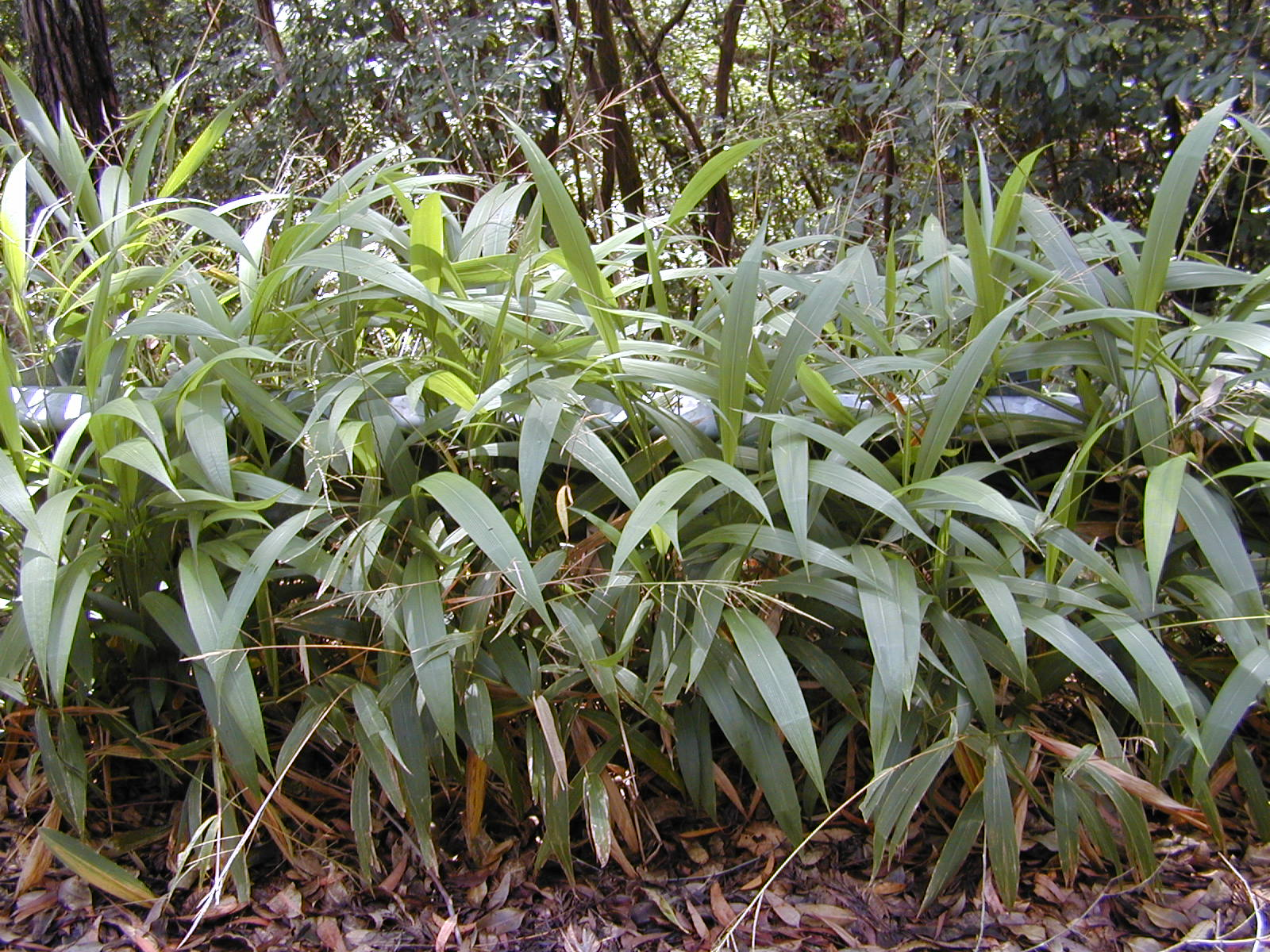 Setaria palmifolia (habit). Location: Maui, Makawao Forest Reserve